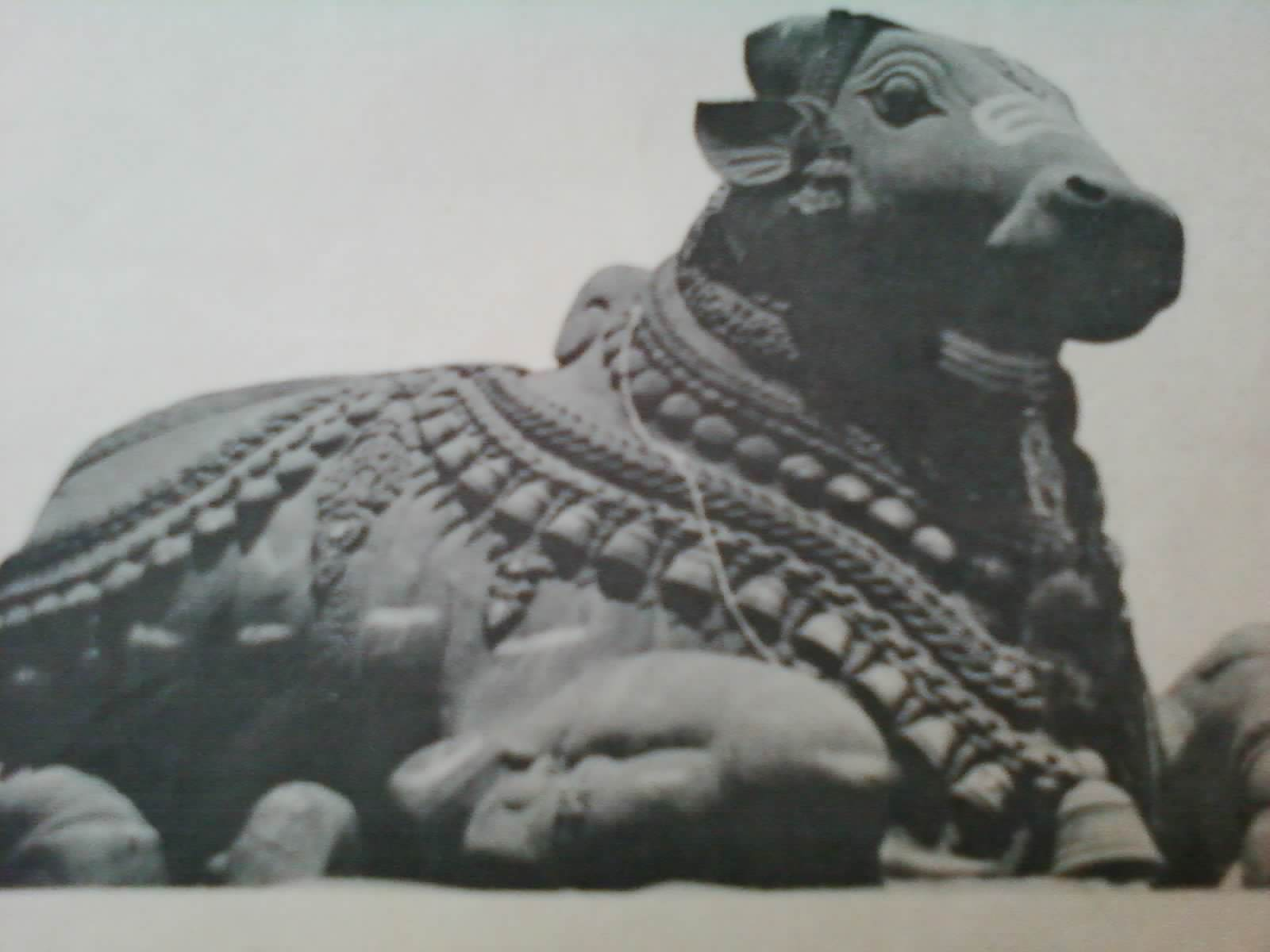 The Nandhi statue in Mysore.